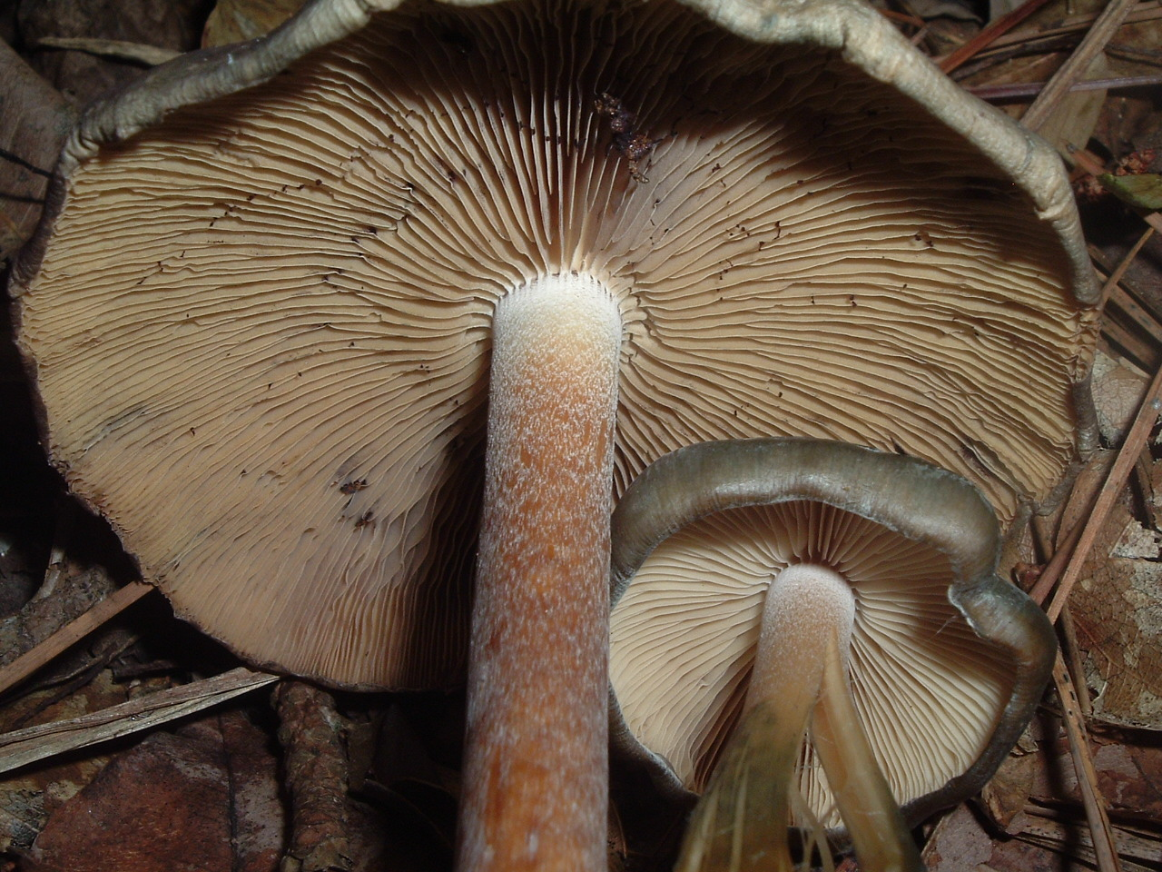 Psilocybe caerulescens. Found by SEmushroomHunter in South Carolina, September 14, 2008. Identified by Workman.